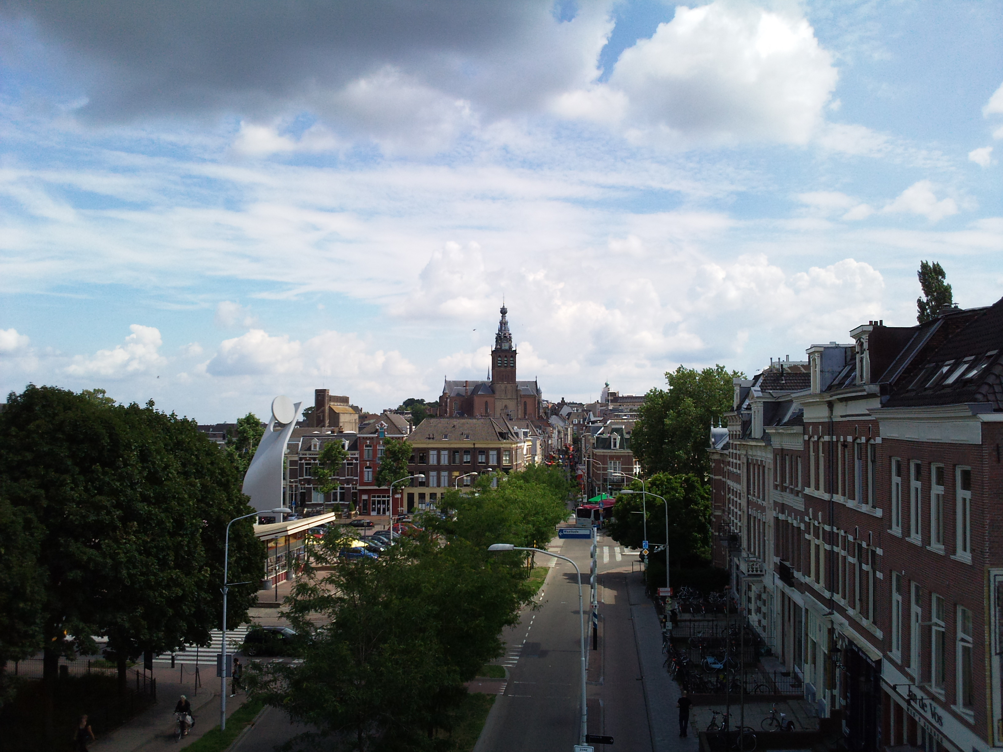 Sint Steven Church, Nijmegen (NL), as to be seen from Snelbinder Bridge